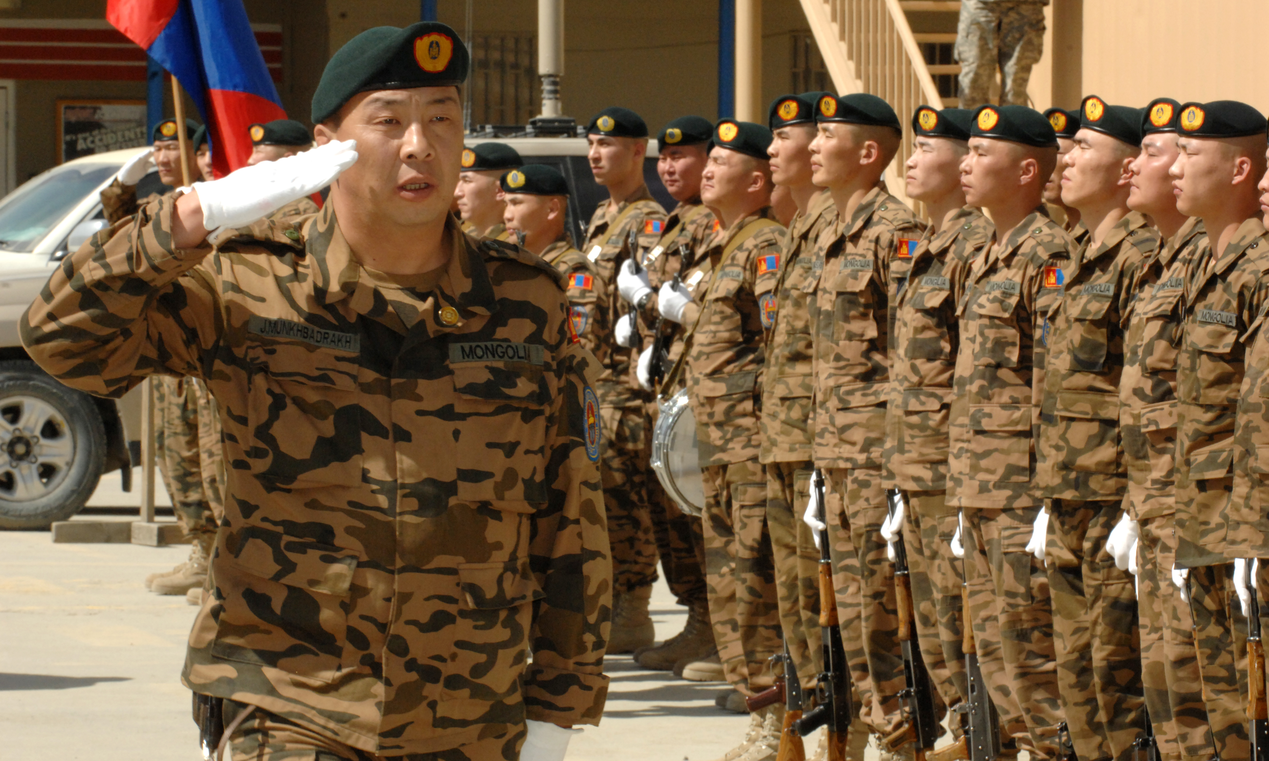 100318-F-8049N-019 CAMP EGGERS, Afghanistan (18 March, 2010) - A member of the Mongolian Expeditionary Task Force 1 salutes the platoon commander during Mongolian Army Day. Mongolian Army Day is an annual event that has occurred since 1921. (U.S. Air Force photo/Staff Sgt. Jeff Nevison)